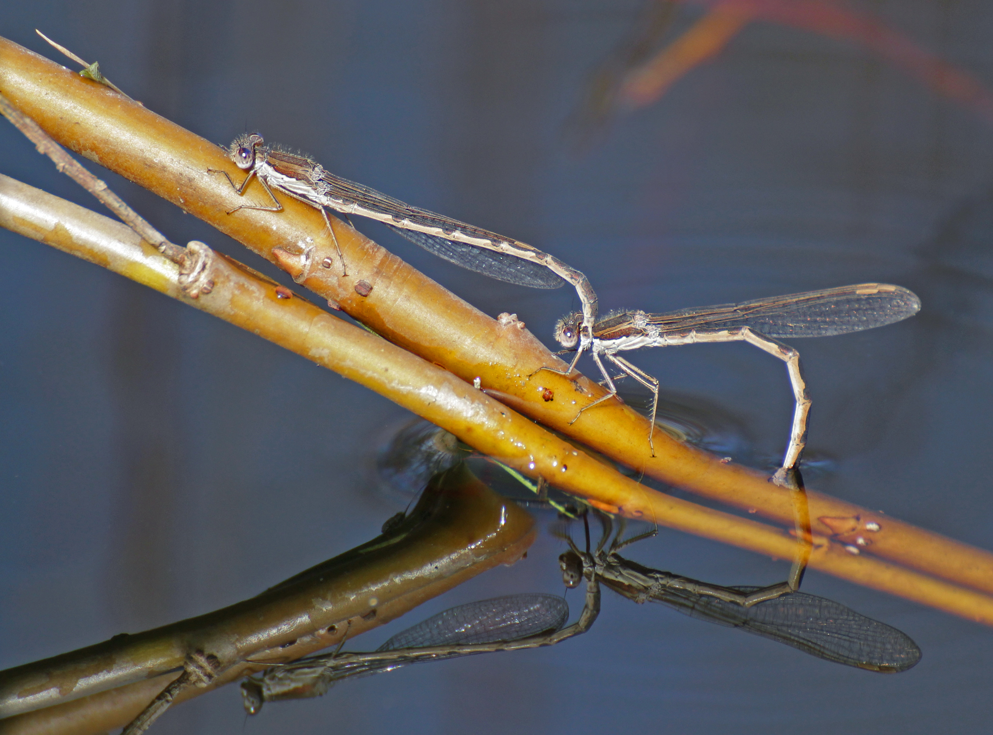 Pair of the Common Winter Damselfly (Sympecma fusca) during oviposition. Wintered as adults, this species is the first (Central European) damselfly of the year at all - here already active in late March.